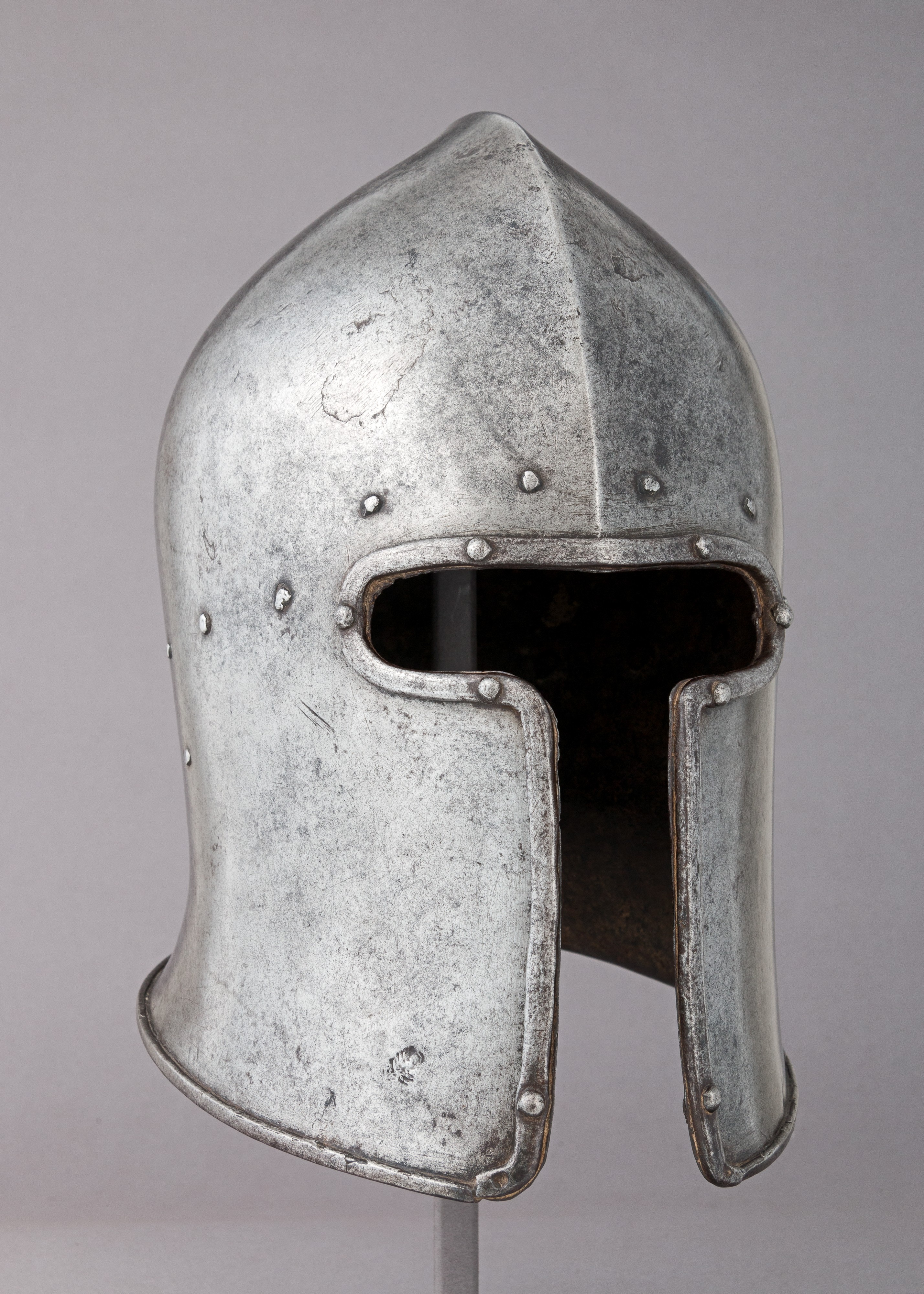 Italian, Brescia; Barbute; Helmets